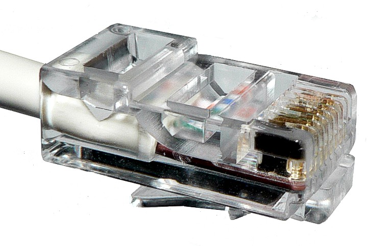 hardware RJ-45 connector with cable crimped